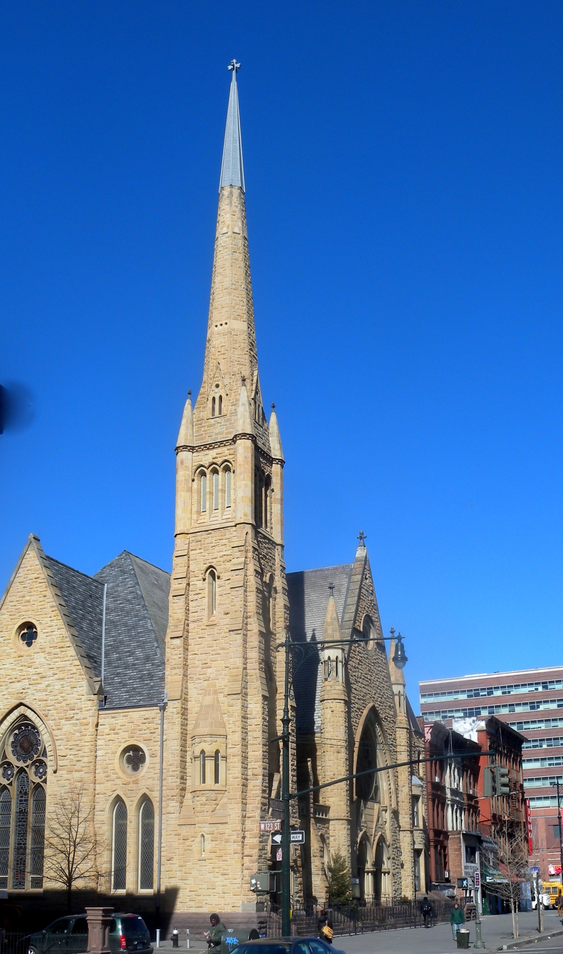 Looking north across 123d Street from Lenox Avenue on a sunny midday, at the former Second Reformed Church, built in 1887, designed by John Rochester Thomas, now belonging to Ephesus Seventh-Day Adventist Church. See .